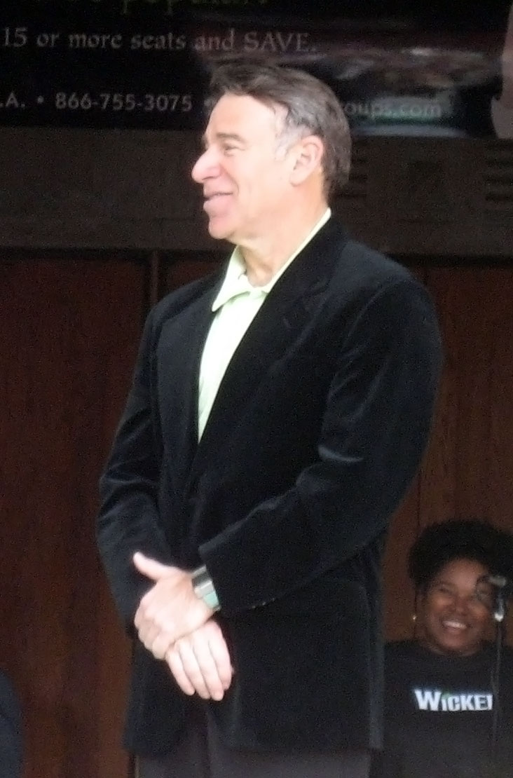 Stephen Schwartz receives a star on the Hollywood Walk of Fame.